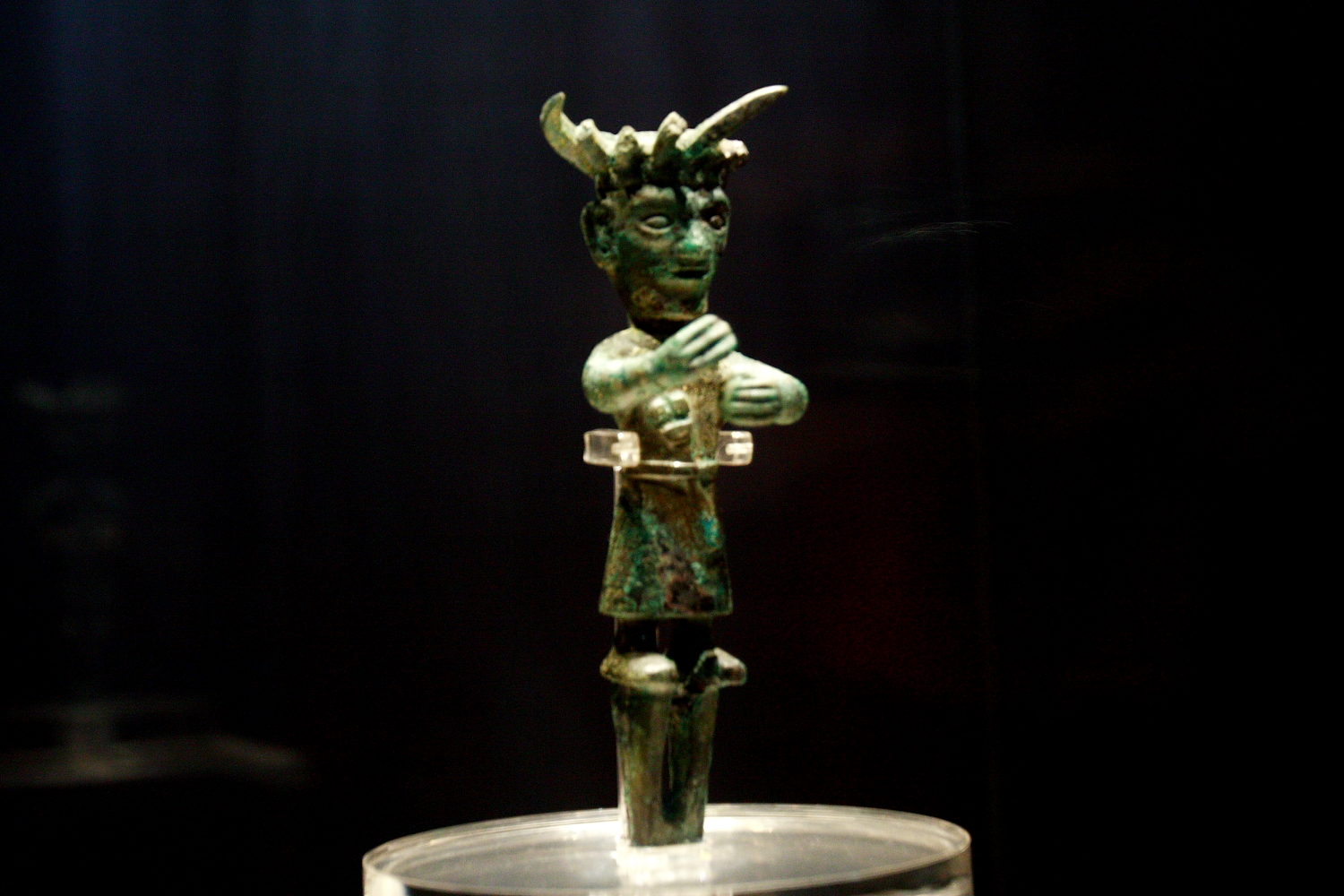 Bronze man with hat Jinsha archaeological site, Chengdu China